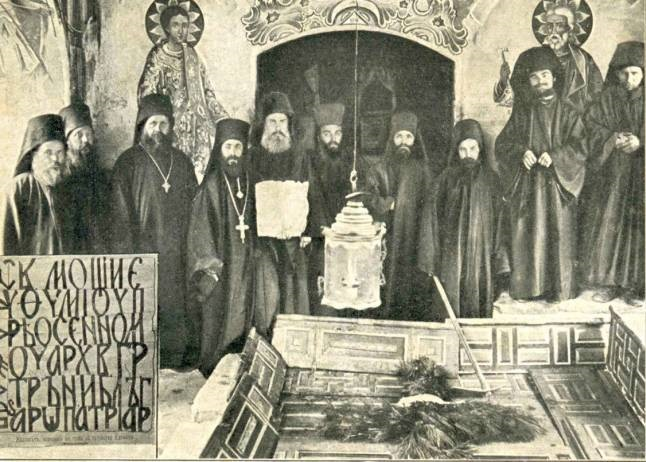 Bachkovo Monastery Brotherhood December 1905